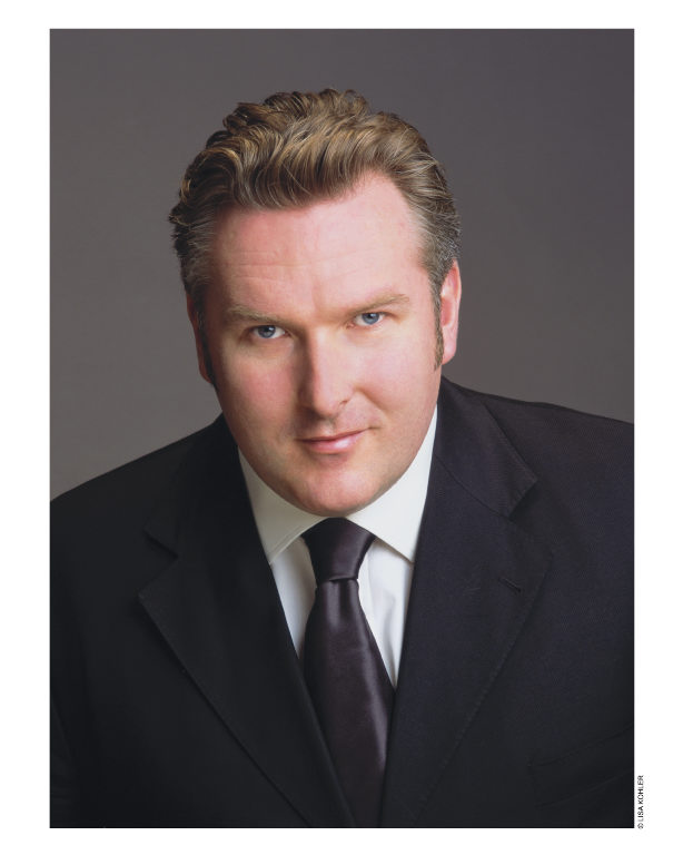 New Zealand tenor Simon O'Neill – author query self portrait